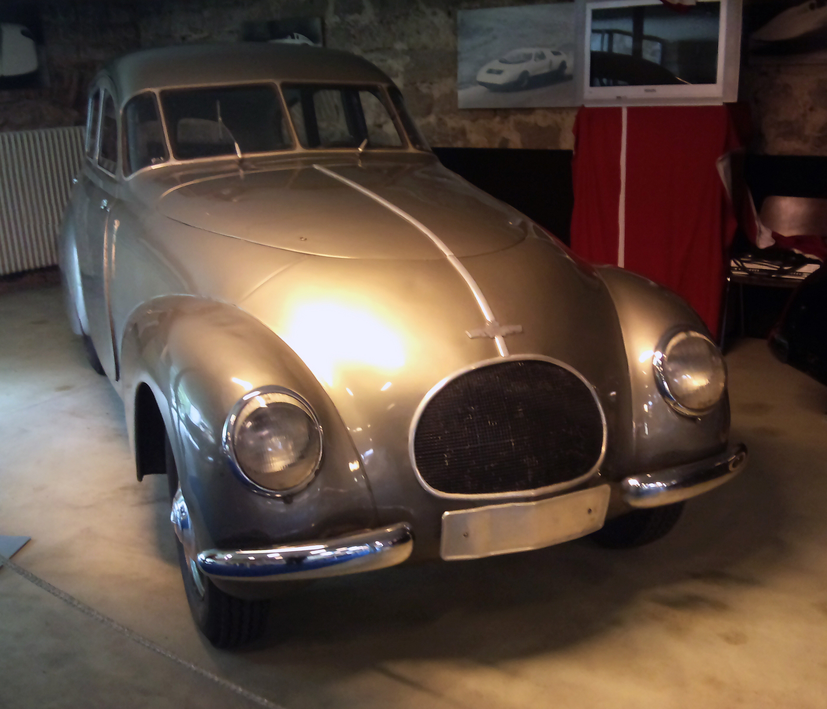 1939 Kamm coupe K3 by Wunibald Kamm, shown at Langenburg car museum.